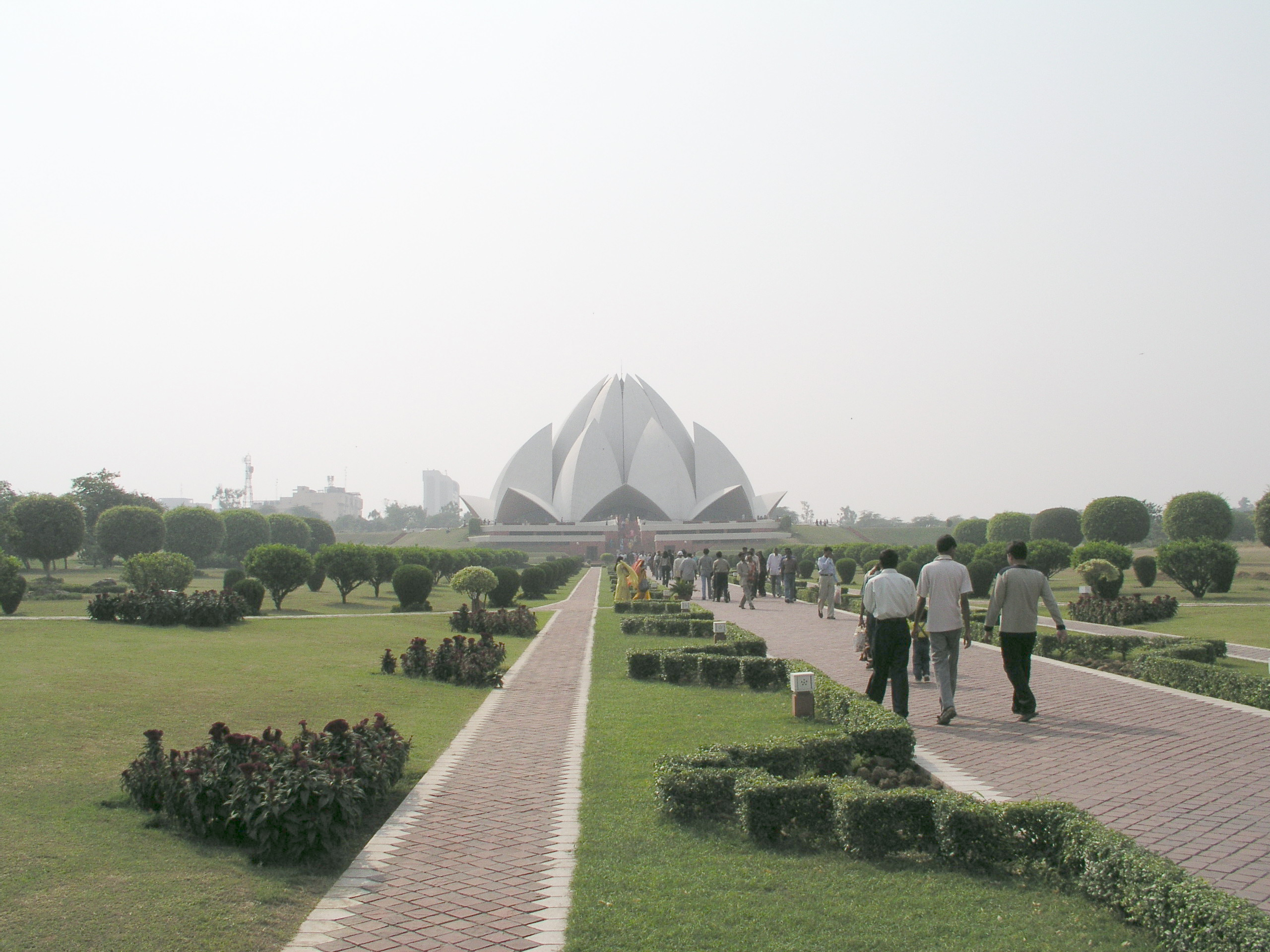 Lotus Temple, in DelhiLotus Temple, New Delhi